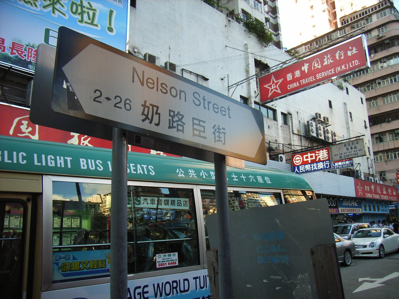 Nelson Street, Kowloon Photo by TonySKTO